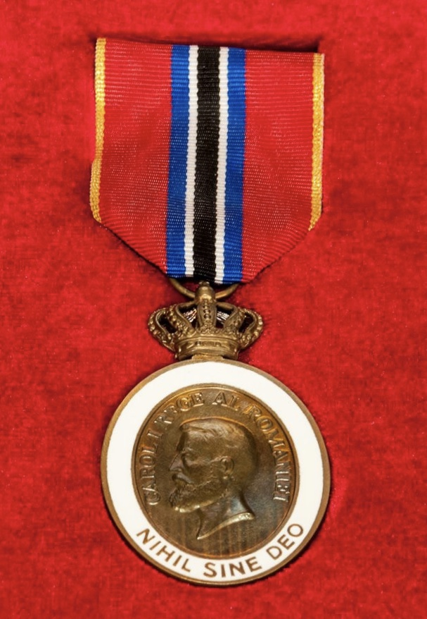 A Medal of the Decoration